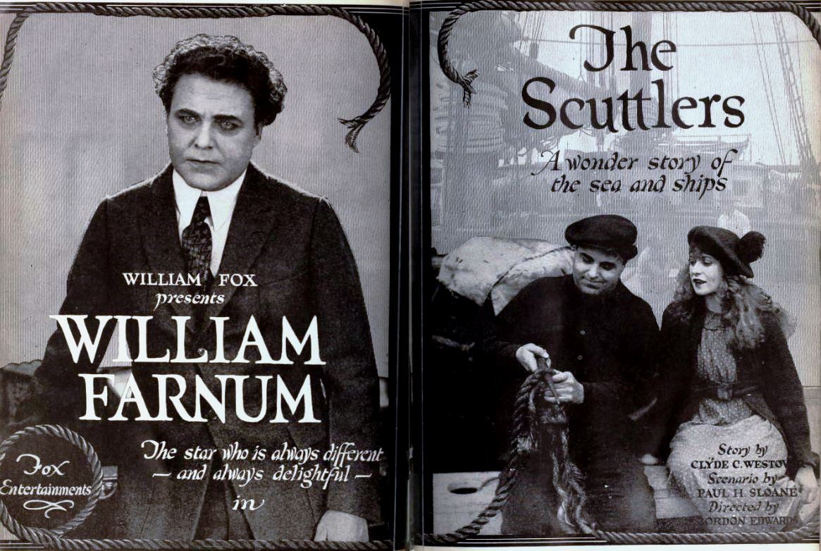 Advertisement for the American drama film The Scuttlers (1920) with William Farnum and Jackie Saunders, on pages 14 and 15 of the December 25, 1920 Exhibitors Herald.